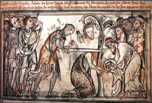 Execution of St Alban